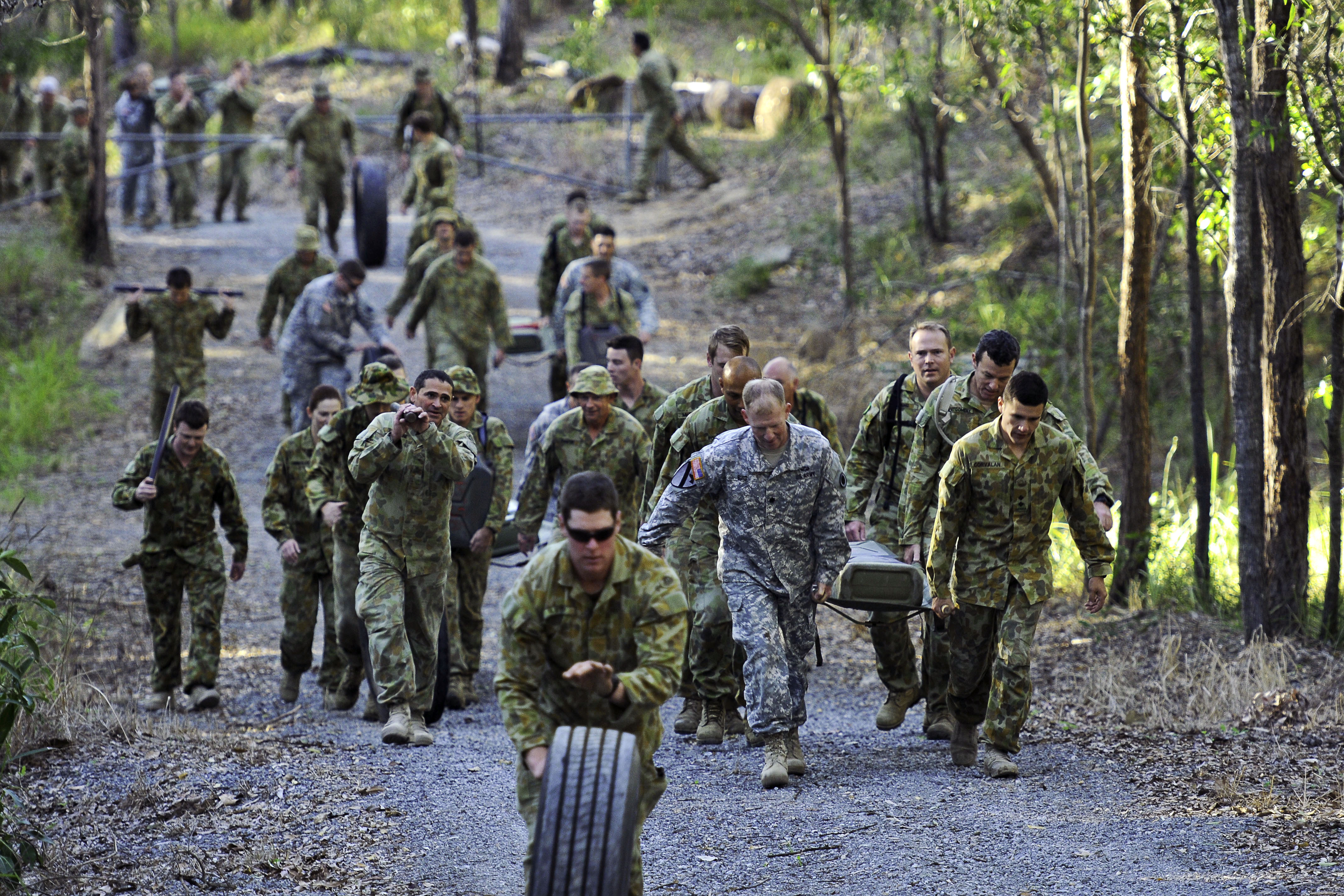 I Corps and 1st Signal Regiment, Australian army, soldiers carry three 5-liter water cans, a litter, a 3-foot steel bar, two ammunition cans and a truck tire up an incline during a hill walk in the early hours on Gallipoli Barracks, Australia, July 8, prior to the start of Talisman Sabre 15. Talisman Sabre is a biennial exercise, consisting of U.S. and Australian forces with a contingent of 30,000 participants. I Corps is using TS as a certification exercise to validate as a Combined Forces Land Component Command.